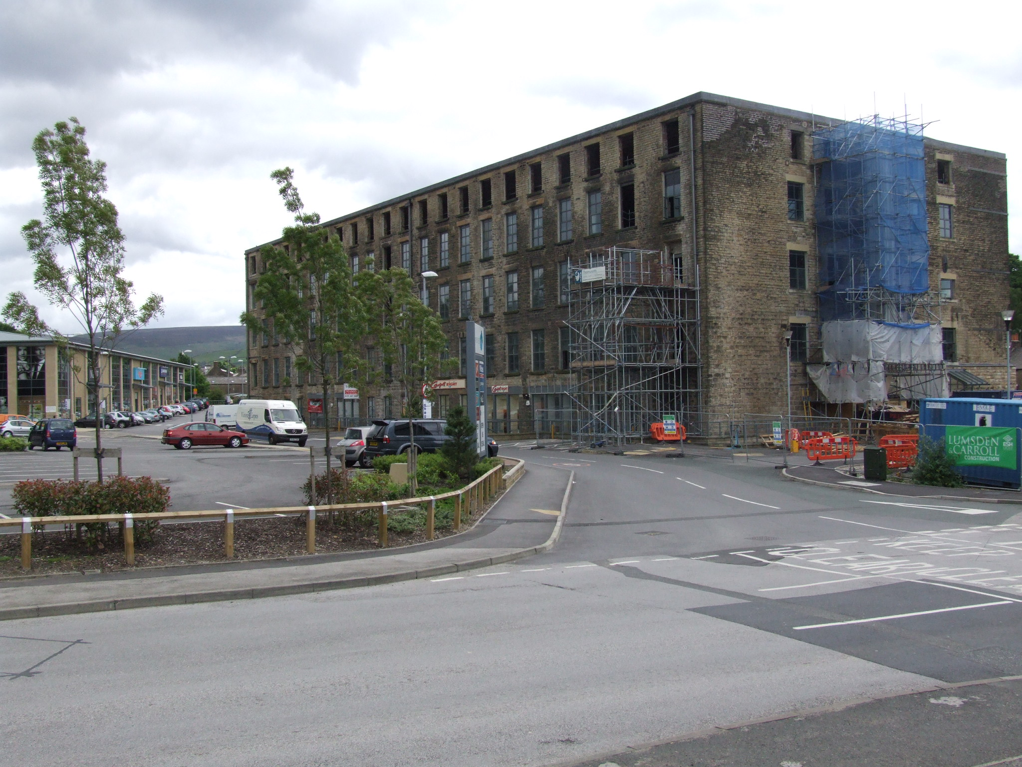 Glossop|Glossop is a village in Derbyshire|Derbyshire on the edge of Greater Manchester. Wrens Nest Mill June 2008, reconstruction after the fire.